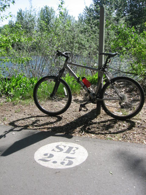 A bicycle path on the Parkcenter Blvd. section of the Boise Greenbelt.